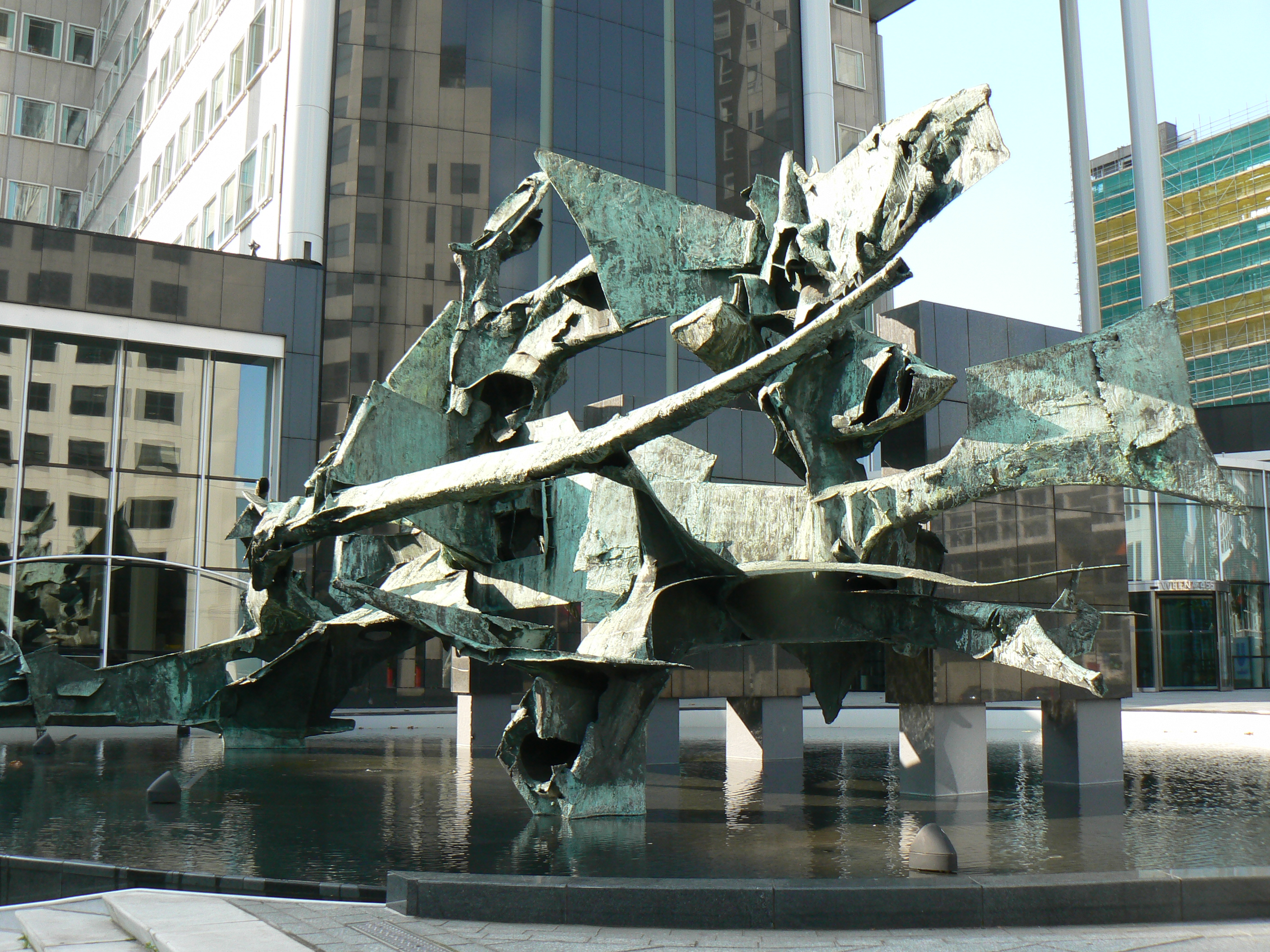 sculpture by Wessel Couzijn in Rotterdam/The Netherlands (Weena, Unilever NV building)